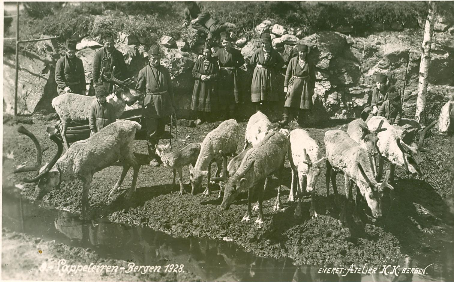 Artist: Atelier K.K. (Knud Knudsen) Date/place: May 1928, Bergen/Norway Subject: In connection to the National fair in Bergen the city made arrangements for a small Sami village in the nearby Kanadaskogen (lit. Canadian forest) so that locals and turists could get an authentic feeling of the northern natives. A popular sight for some time, but the reindeer did not take well on the food, and both people and animals suffered. Medium: Postcard Notes: More of Knudsen´s work available at: [#// the picture collection at the University of Bergen] (in Norwegian only). Persistent URL: n/a [#//nettbiblioteket.no/index_engelsk.html” Original belongs to the Local Collection at Bergen Public Library]